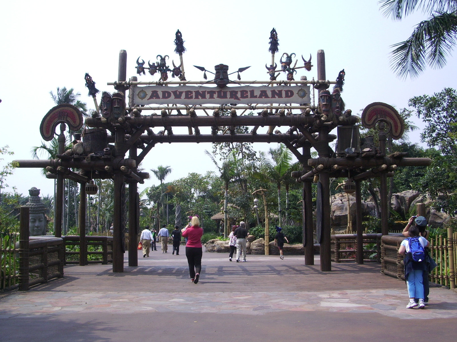 HKDL Adventureland